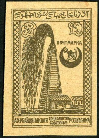 Gushing oil well. The first Soviet Azerbaijani petro-stamp. Note the "Hammer and Sickle" (Early 1920s).